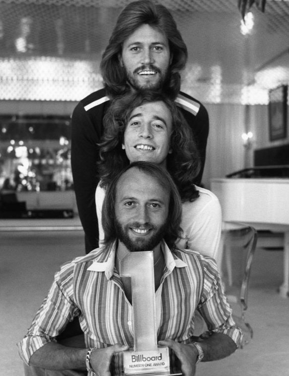 Publicity photo of the Bee Gees for the television special Billboard #1 Music Awards. Top to bottom: Barry, Robin and Maurice.